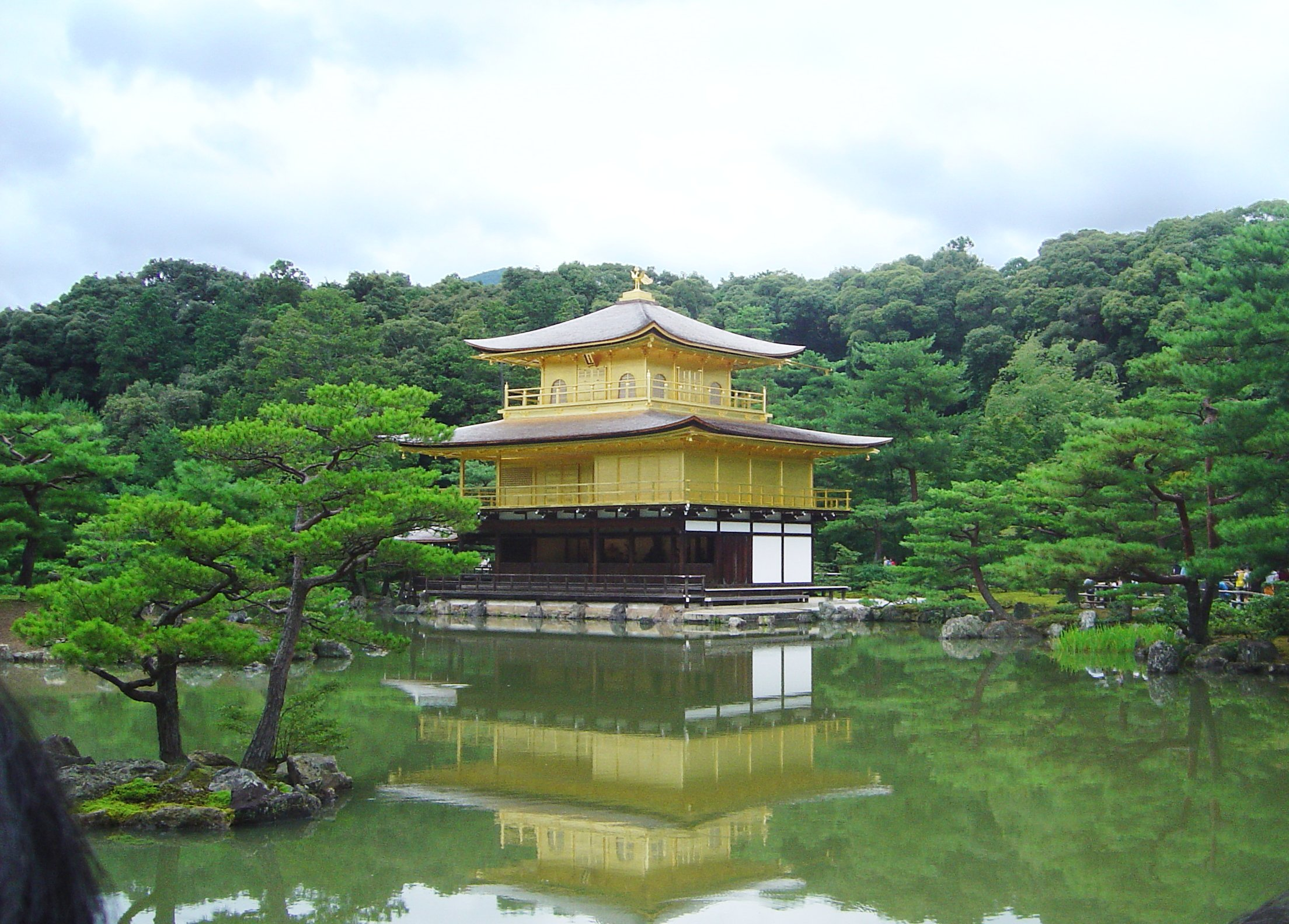 the Kinkaku-ji or "temple of the Golden Pavillion" in Kyoto, Japan